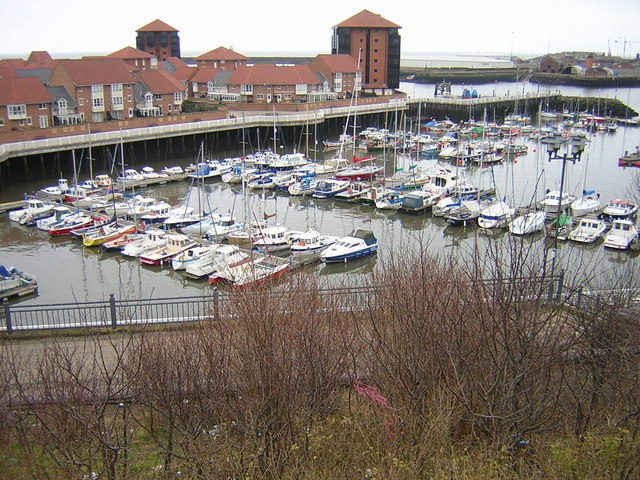 Sunderland Marina